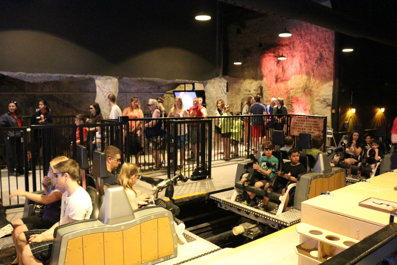 This is a photo of Guardian's station at Canada's Wonderland.